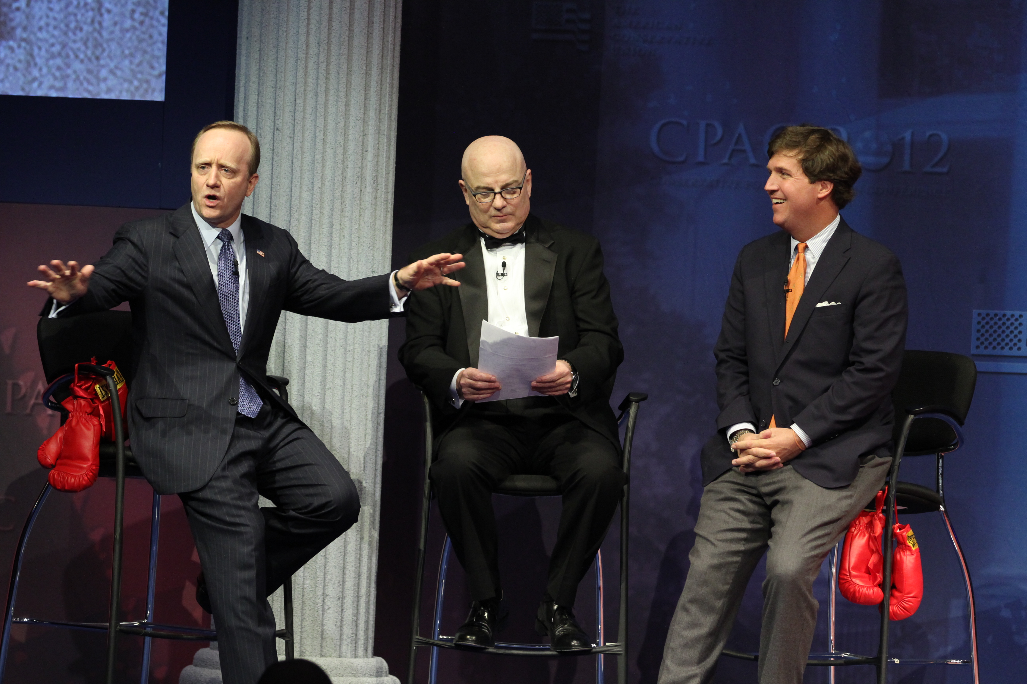 CPAC 2012 'Fight Club' Debate with Paul Begala and Tucker Carlson, Thomas McDevitt, President, The Washington Times is the Moderator.